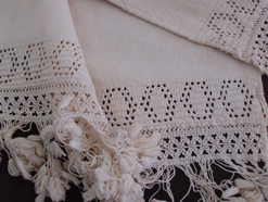 Asproploumi